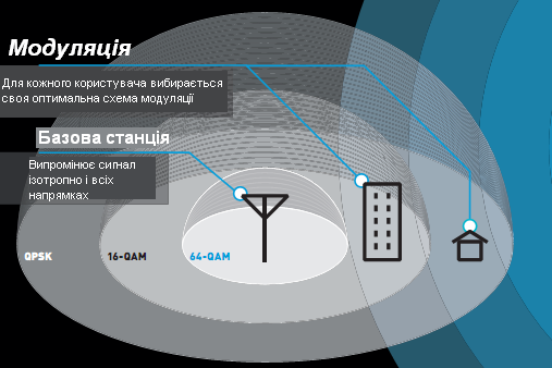 IEEE 802 22